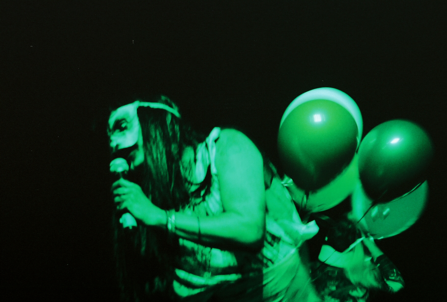 Christeene opening for Peaches